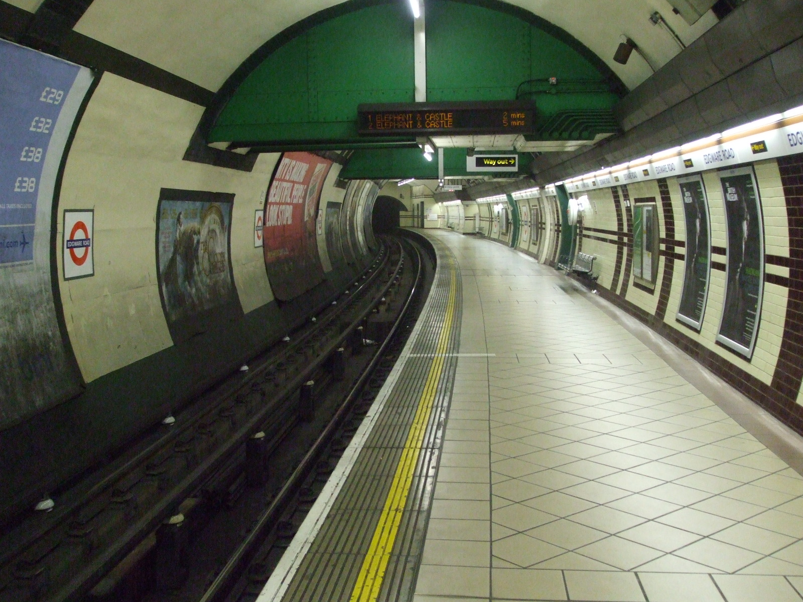 Edgware Road (Bakerloo line) tube station southbound platform looking north